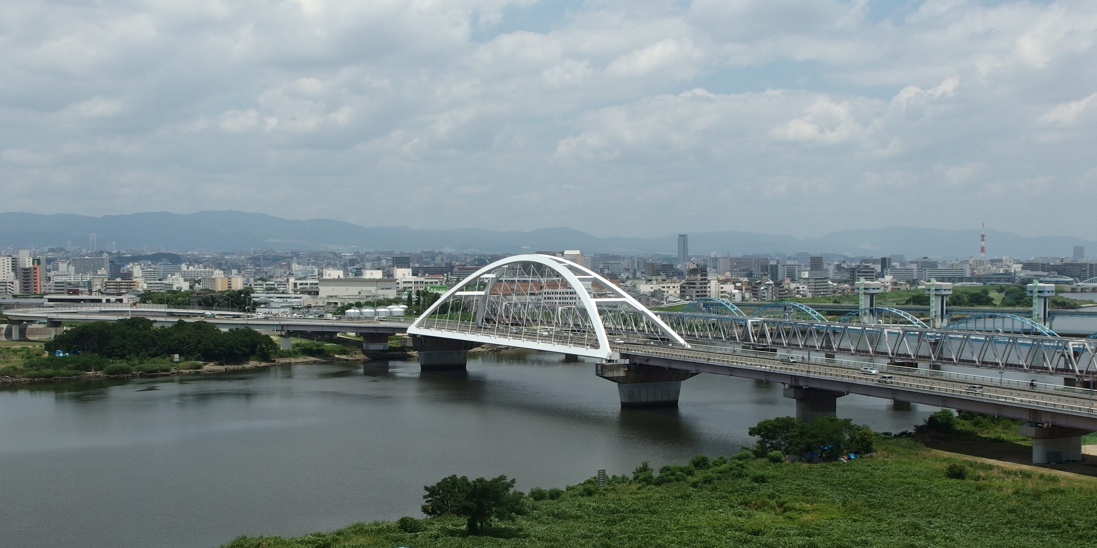 Nagara-Bridge, Osaka, Osaka Prefecture, Japan